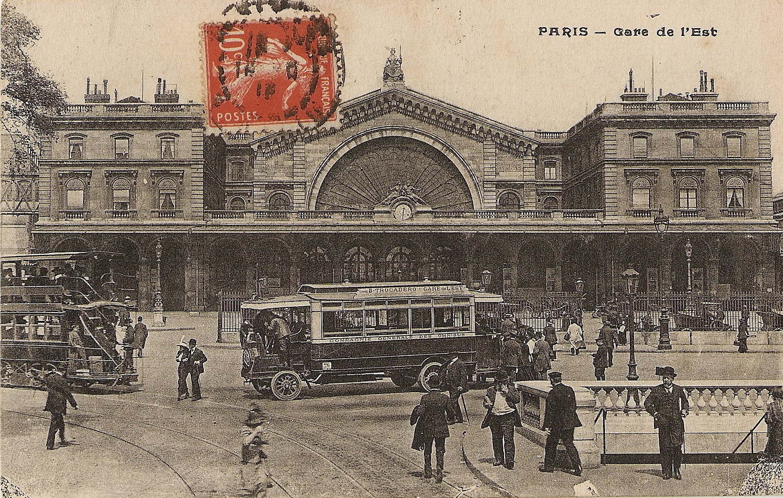 The Gare de l'Est in Paris at the turn of the XXth century. This old postcard shows how public transports were already complementary: a bus station and a tramway station and a subway station entrance are part of the railway station.